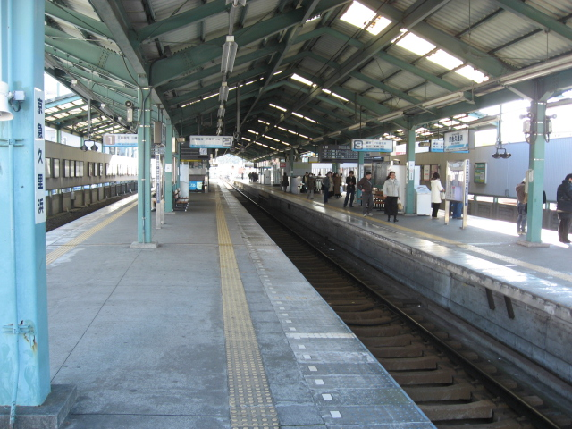 Keikyu Kurihama Station platforms, taken by laurel04spl on 16/12/2007